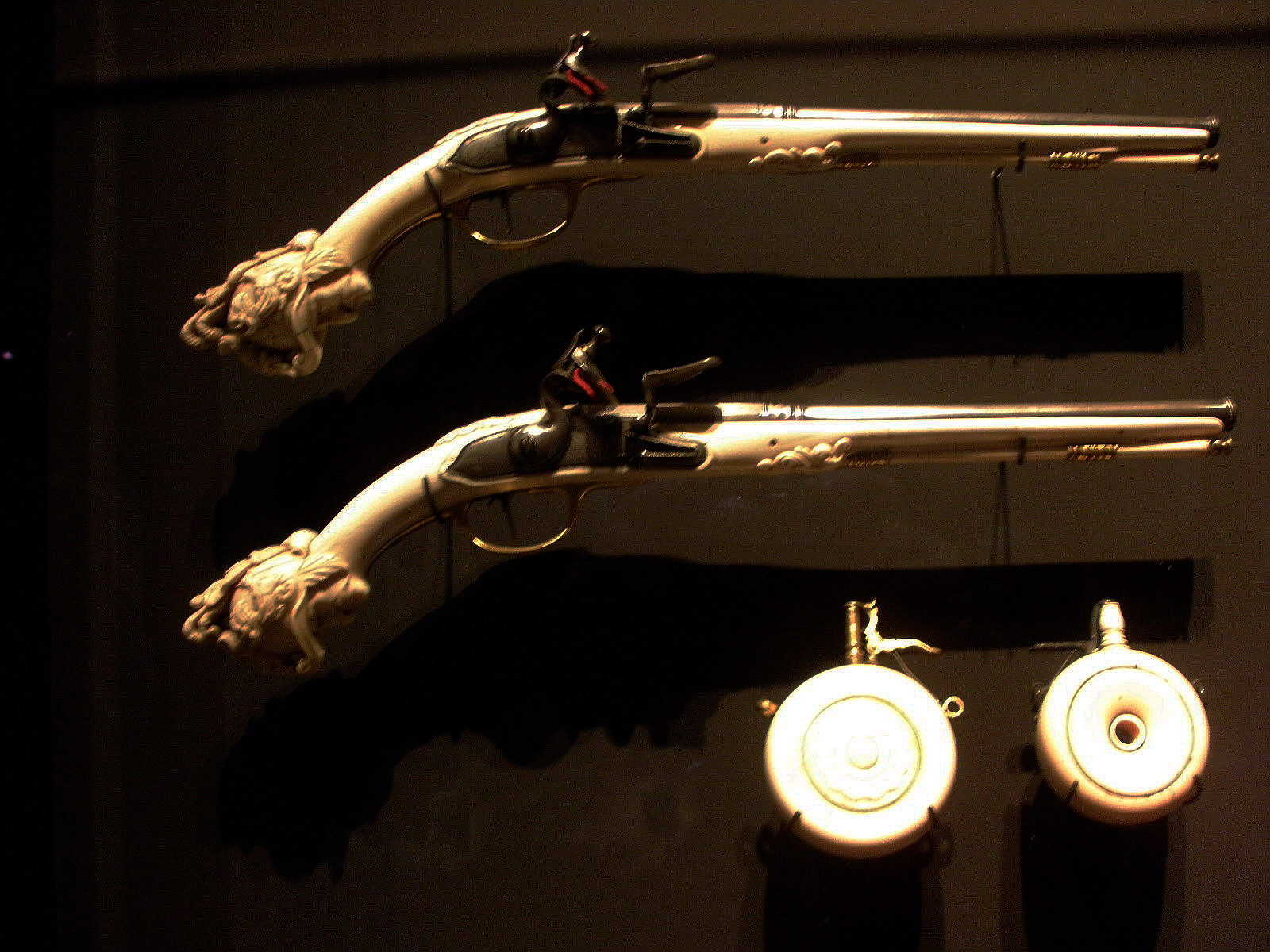 Pair of decorative flintlock pistols and gunpowder flasks